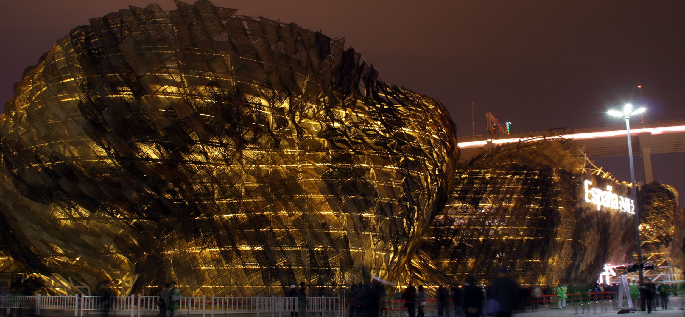 Spanish Pavilion of Expo 2010